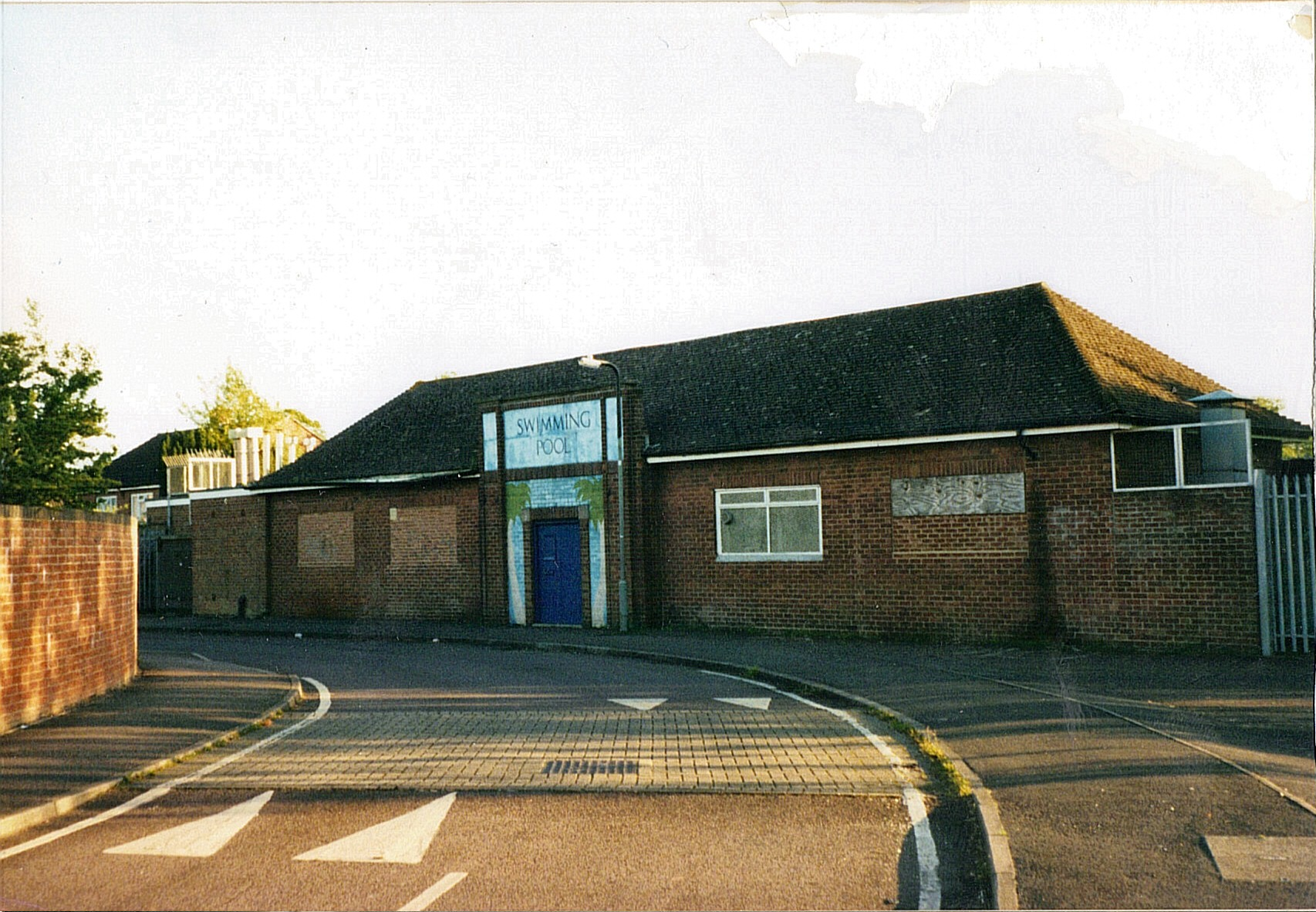 Woodgreen swimming pool, Banbury, Oxfordshire in 2004. It was built in the early 1960s and renovated in the late 1970s. It was closed in the early 2000s, renovated in 2009 and reopened in 2010.